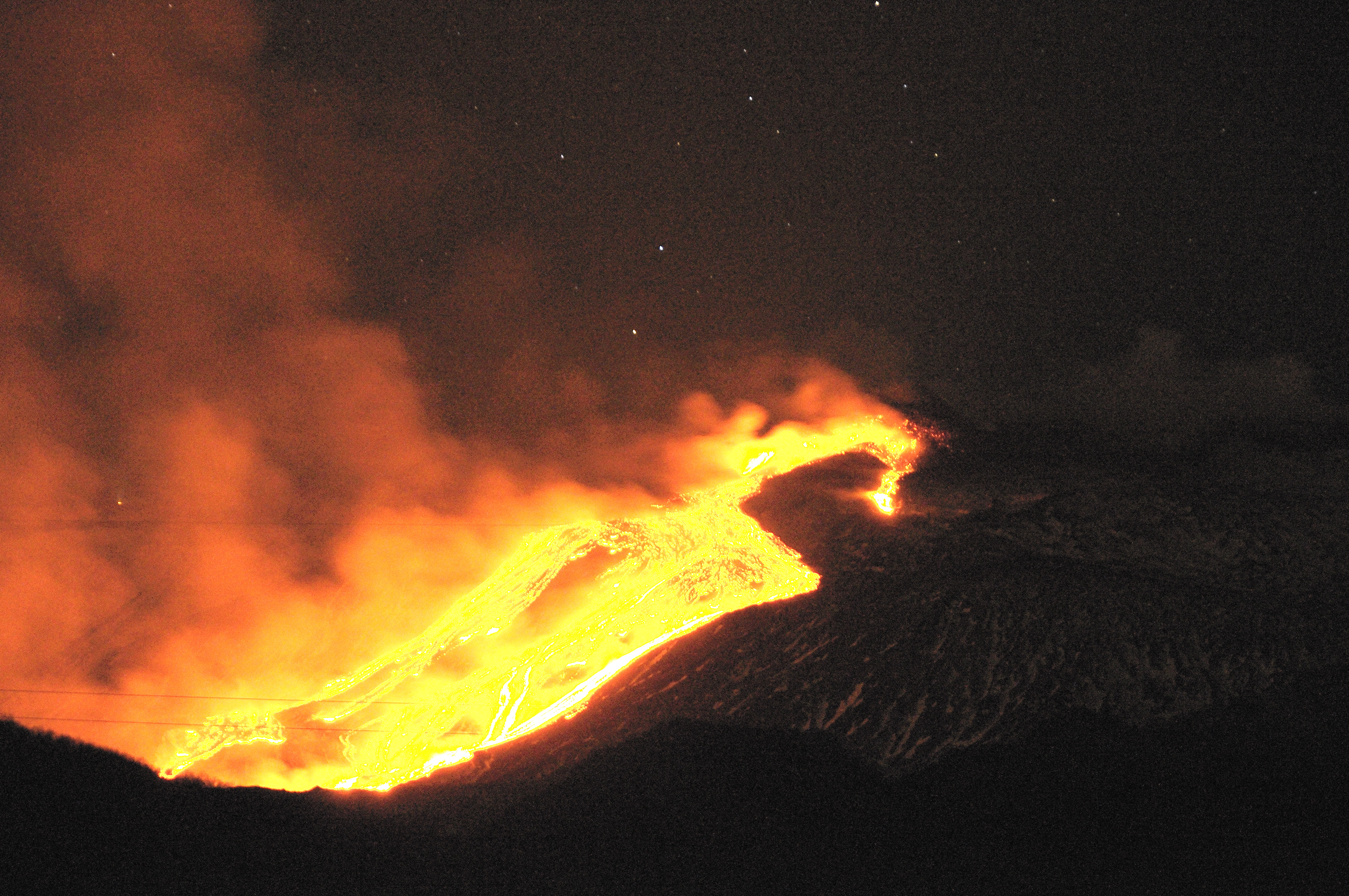 Mount Etna, Sicily